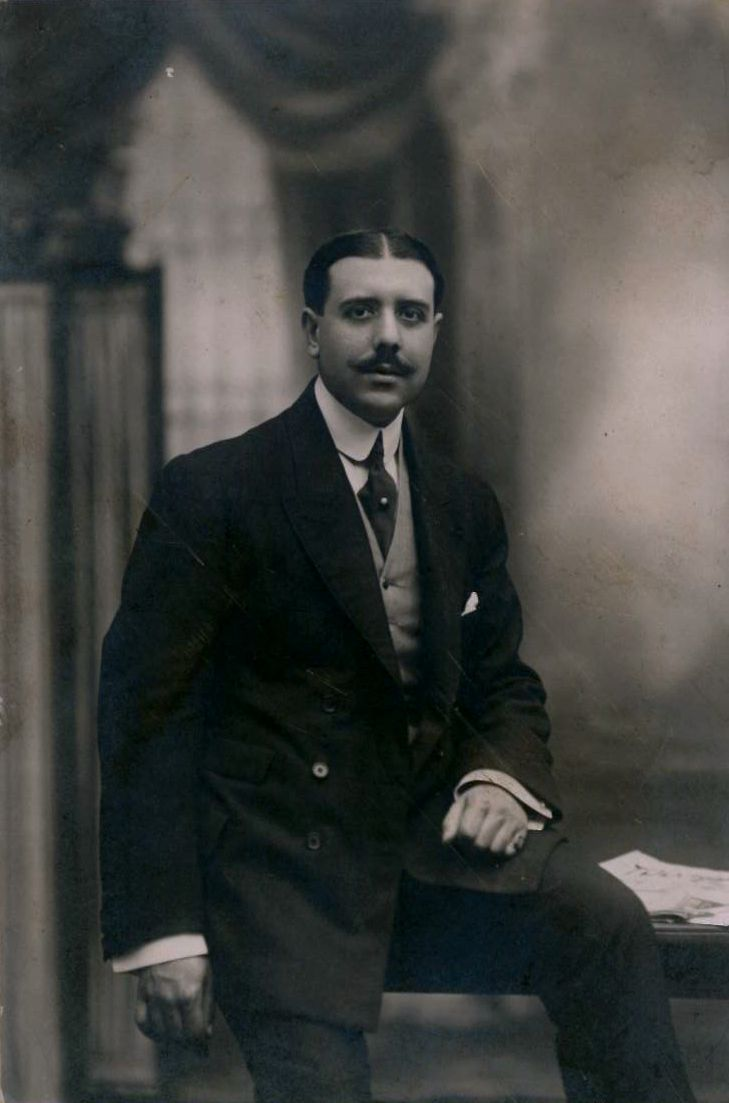 Alejandro Maristany y Guasch in 1915